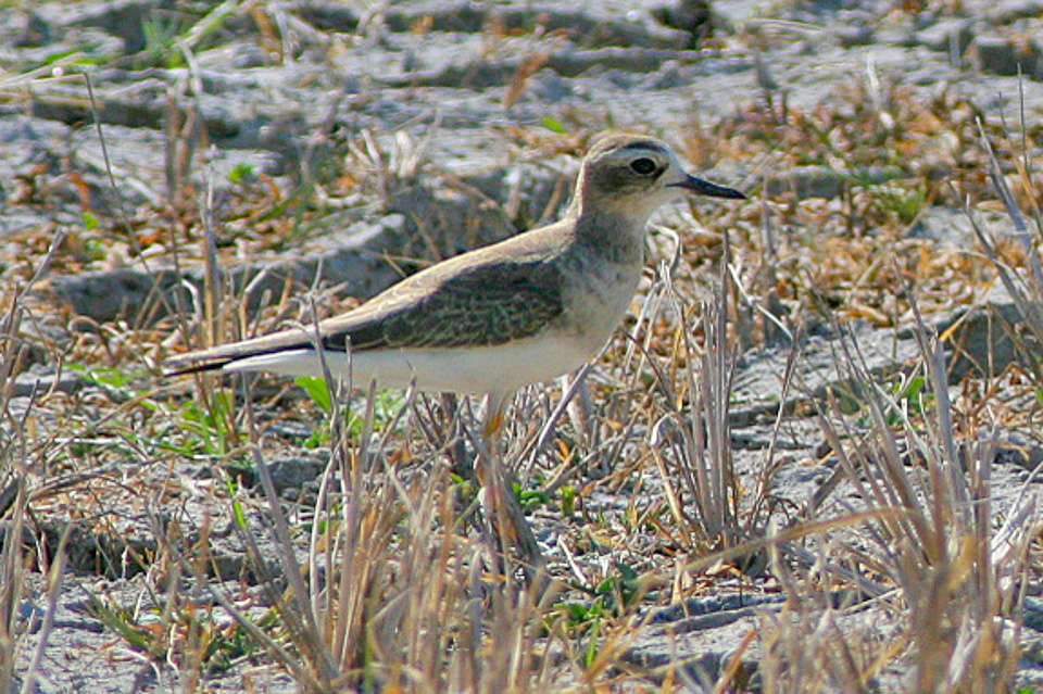 Oriental Plover Charadrius veredus, West Timor